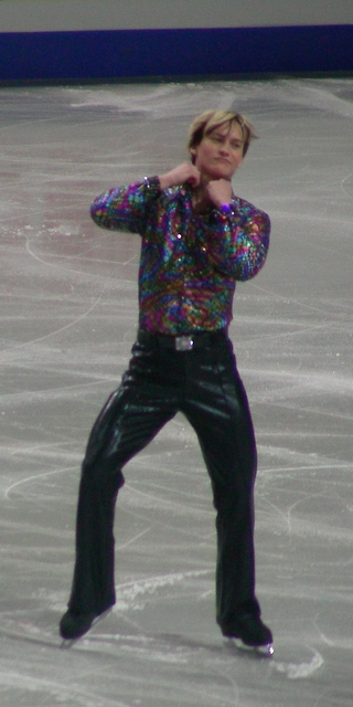 Kristoffer Berntsson on the 2007 European Figure Skating Championships in Warsaw - free skate